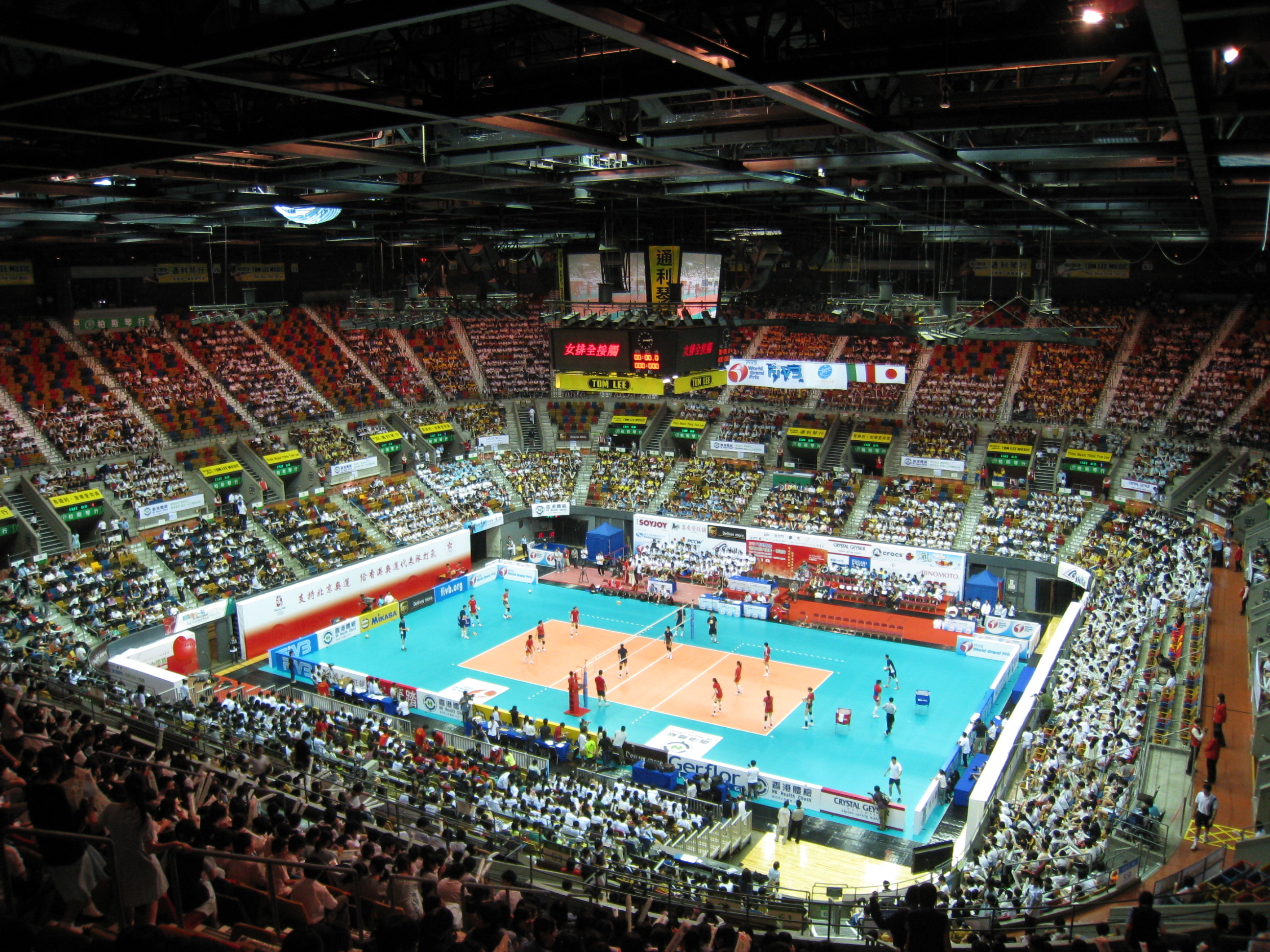 Hong Kong Coliseum Interior 香港體育館